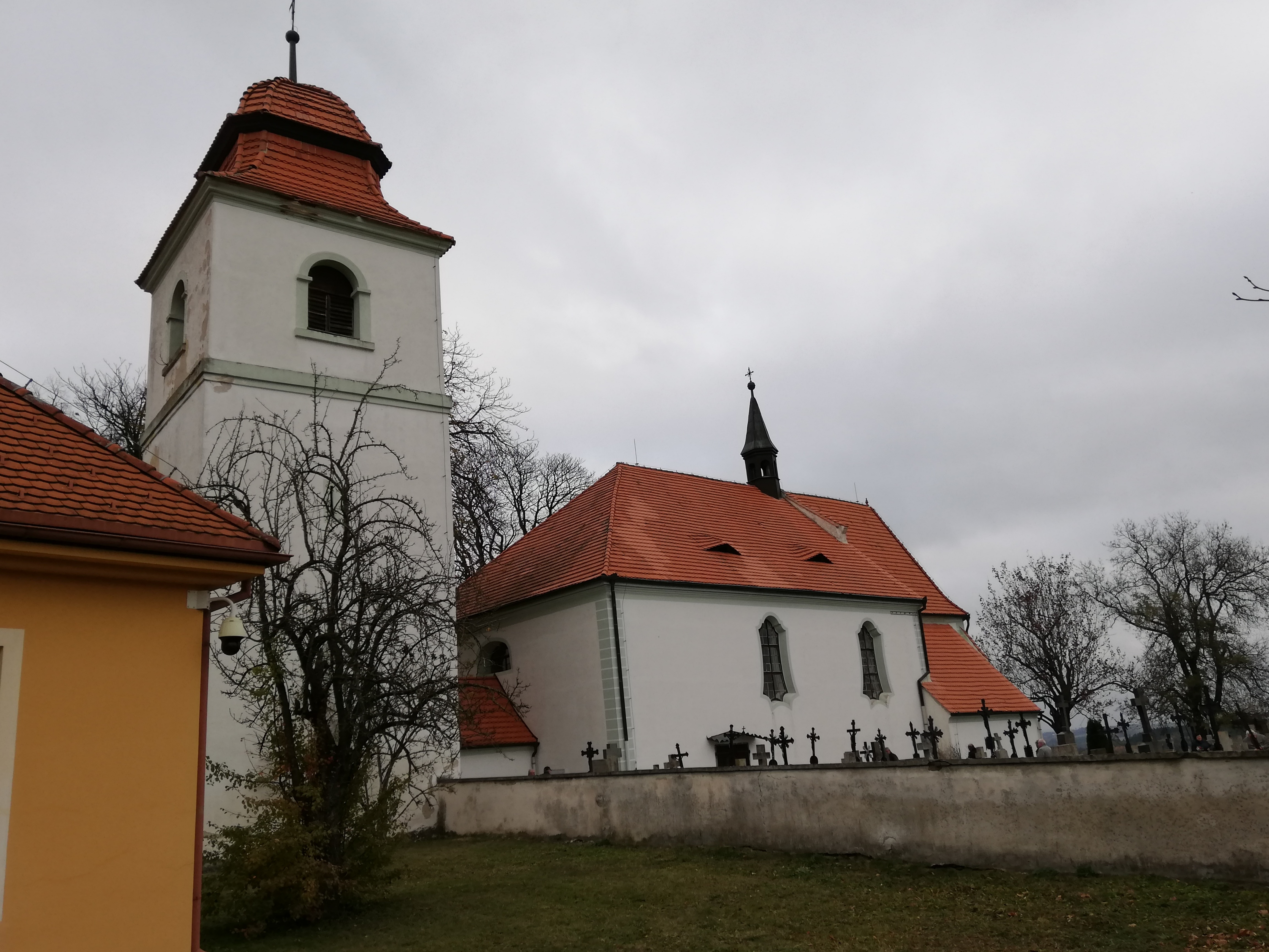 Church of St. Procopius in Křtěnov near Temelín